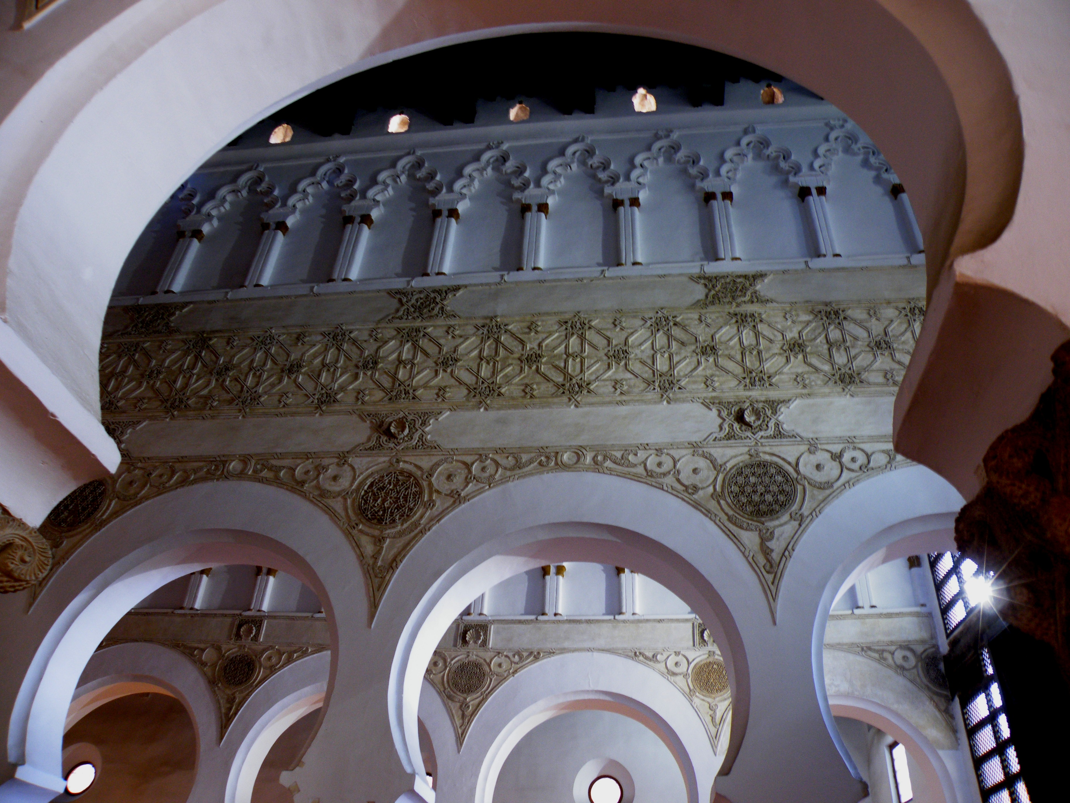 Ceiling